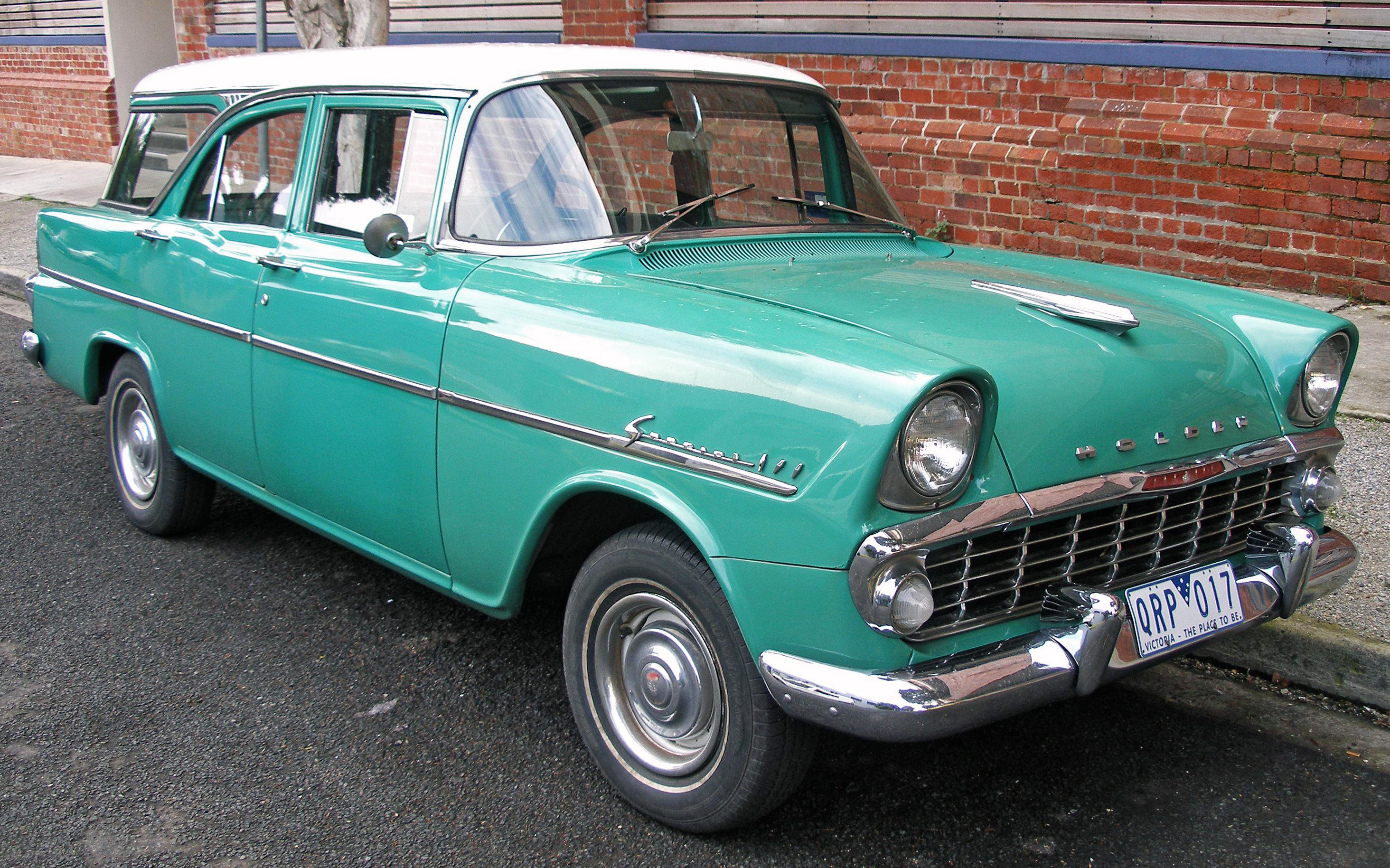 1962 Holden EK Special Station Sedan, photographed in Victoria, Australia. Vehicle registration enquiry resultsJurisdictionVictoriaRegistrationQRP017Chassis codeEK6567AEngine codeJ19334Compliance date1962-01Year of manufacture1962